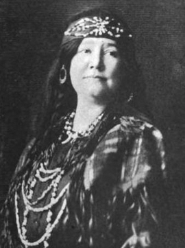 A middle aged woman with fair skin and dark hair. She is wearing a beaded headband, braids, a fringed shawl, and beads.